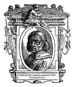 Illustratio from "Le Vite" by Giorgio Vasari, edition of 1568. For the artist portrayed see filename